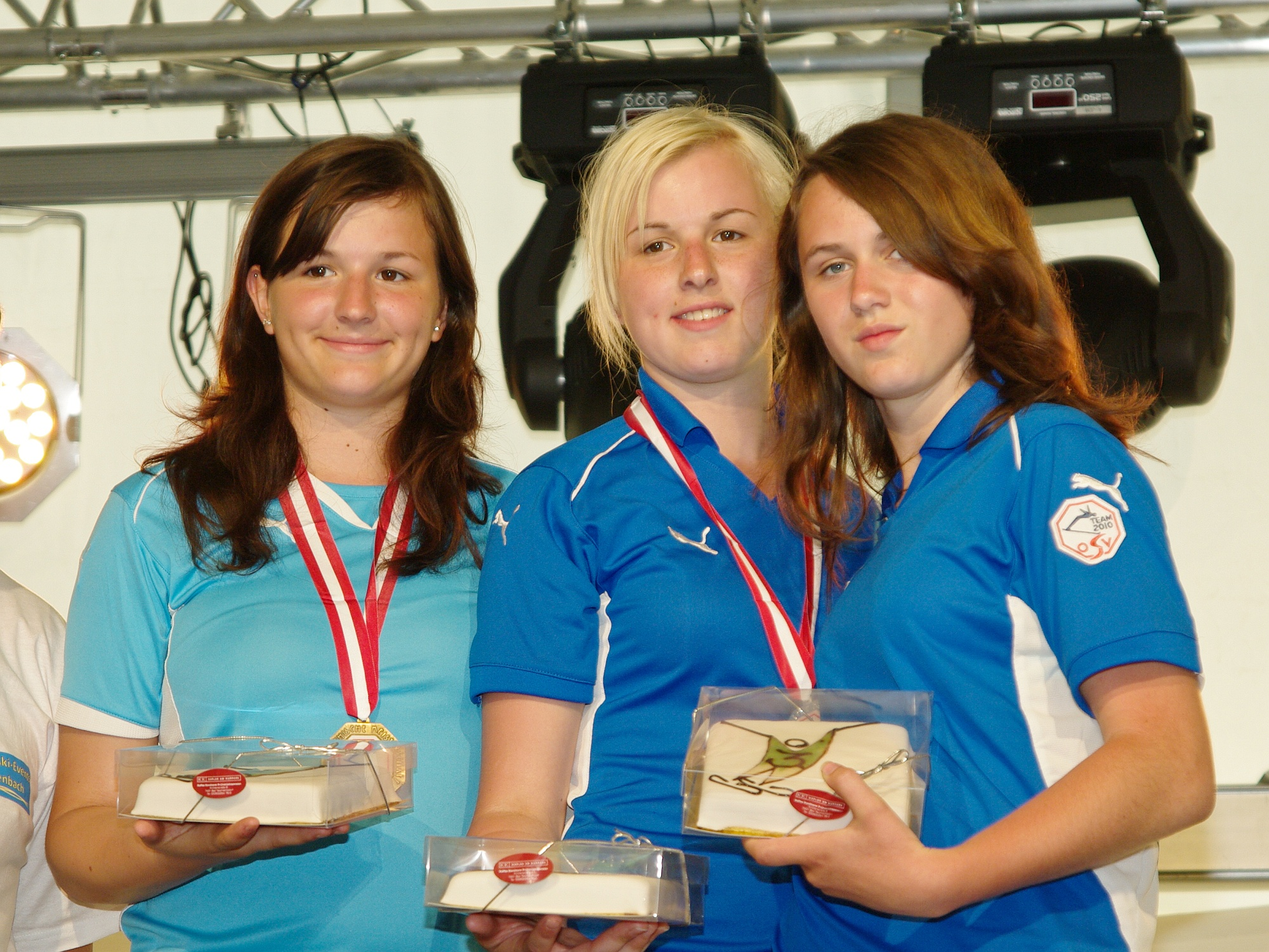 Austrian Grasski Championships 2010 in Rettenbach: Medal ceremony Juniors Combined: 1st place and Austrian Junior Champion: Jacqueline Gerlach (middle), 2nd place: Nicole Gerlach (left), 3rd place: Daniela Krückel (right)